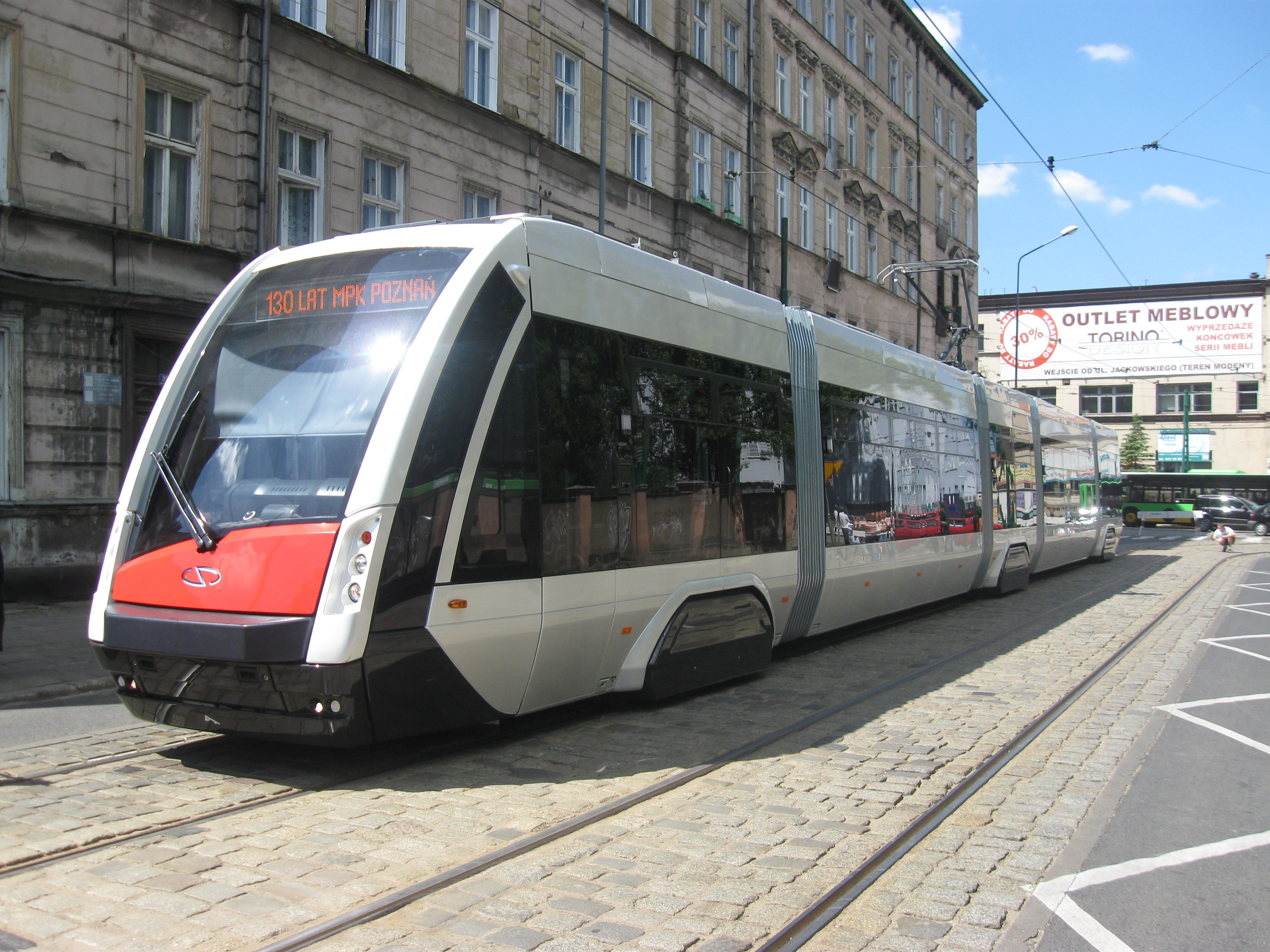 Presentation of the Solaris tramino during the 130th anniversary of public transport in Poznań.